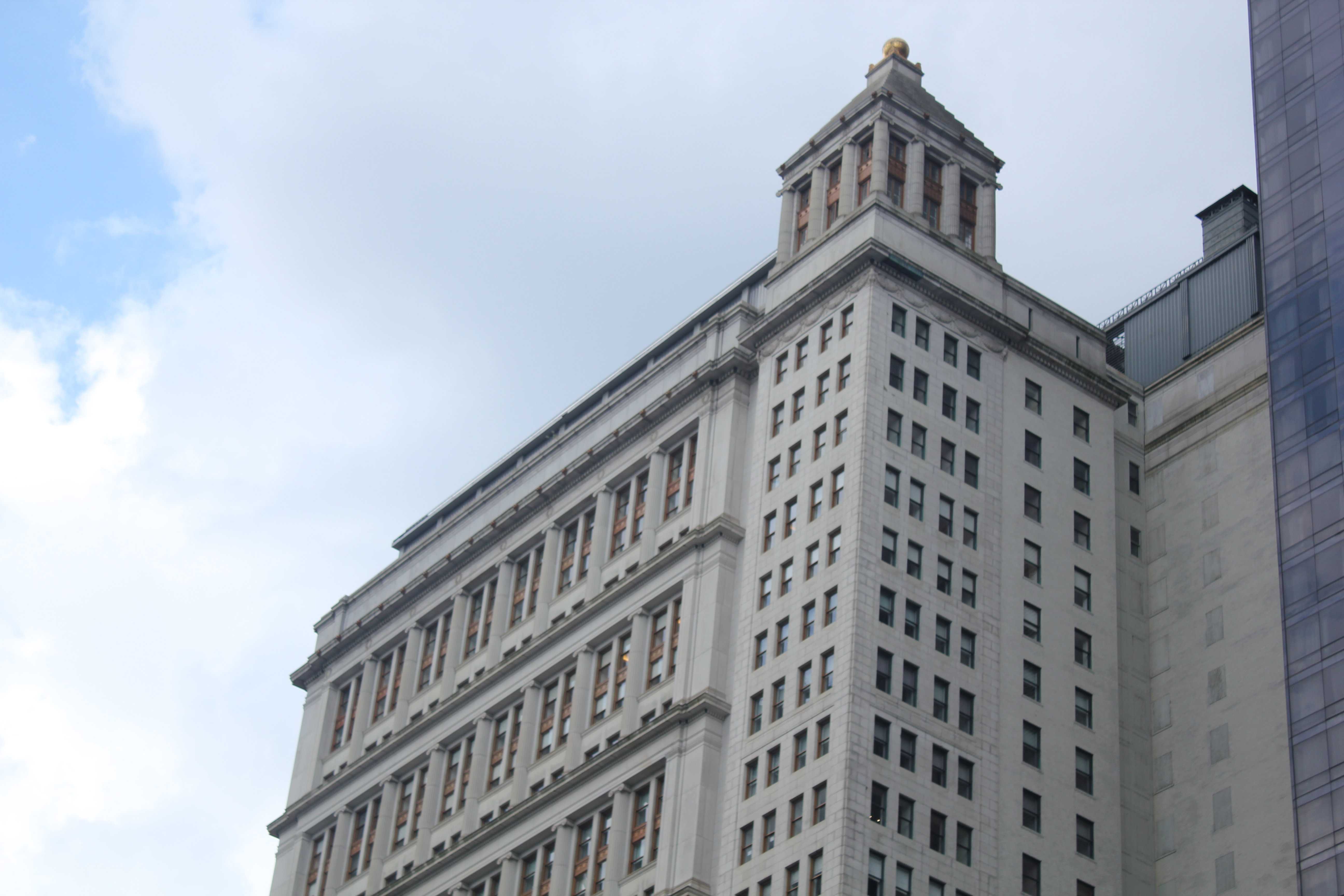 195 Broadway in Manhattan, New York, seen in August 2020